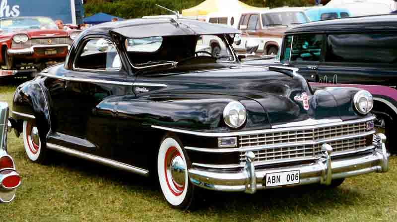 1947 Chrysler New Yorker series C-39 Coupé